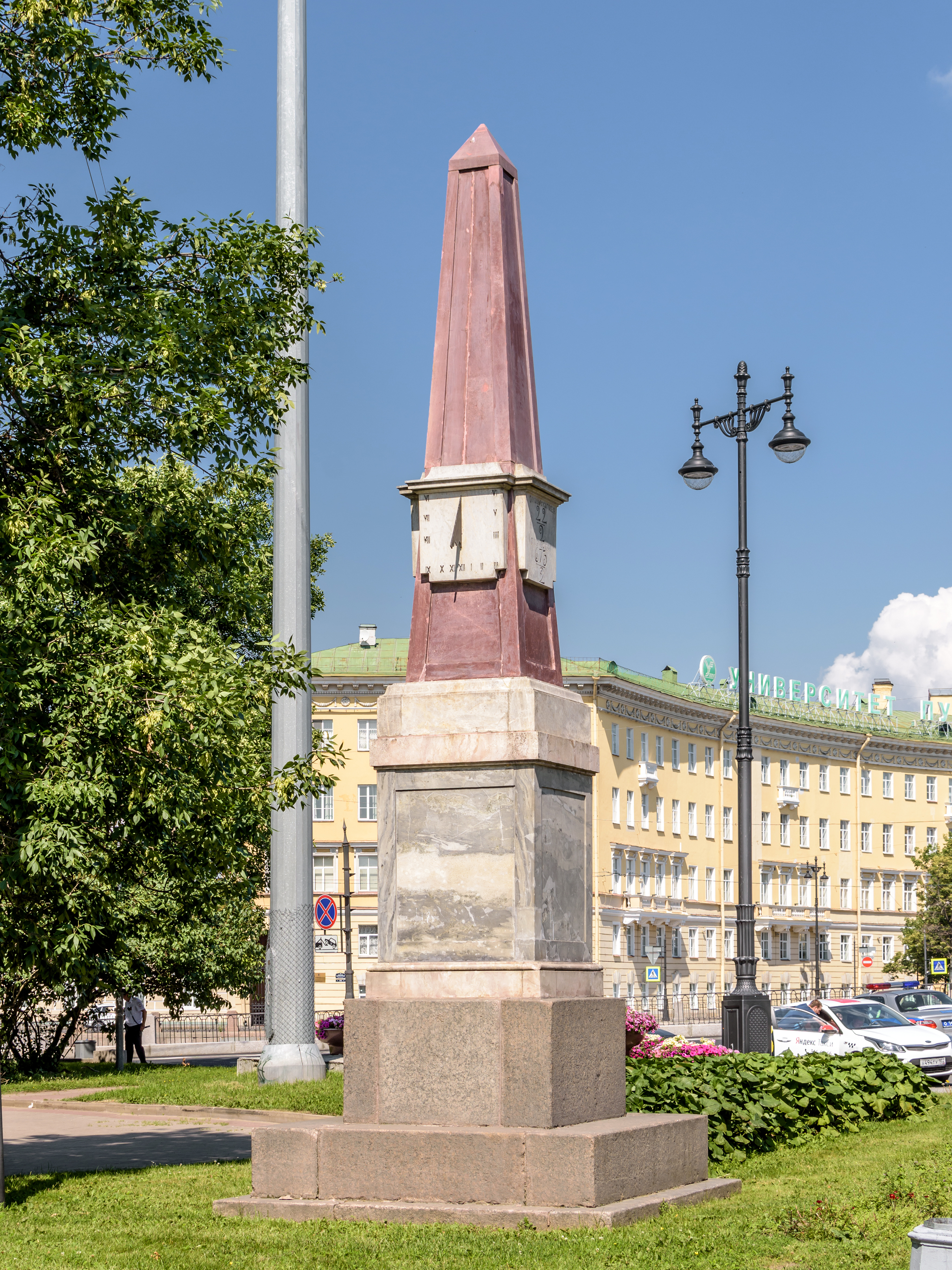 Milepost at Moskovsky Prospekt in Saint Petersburg